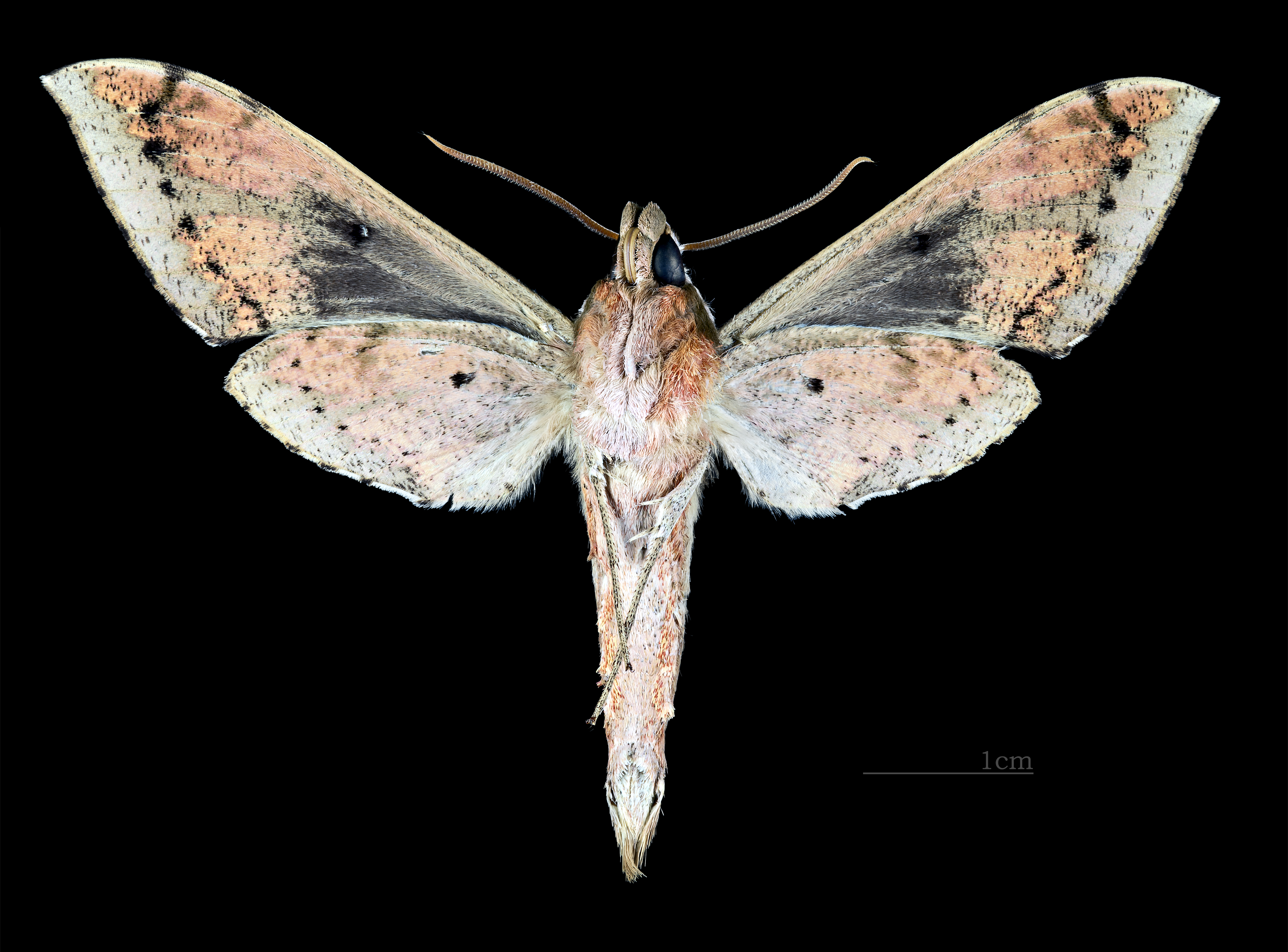 Rhagastis albomarginatus albomarginatus - △ Ventral side Collection of the Mathematician Laurent Schwartz